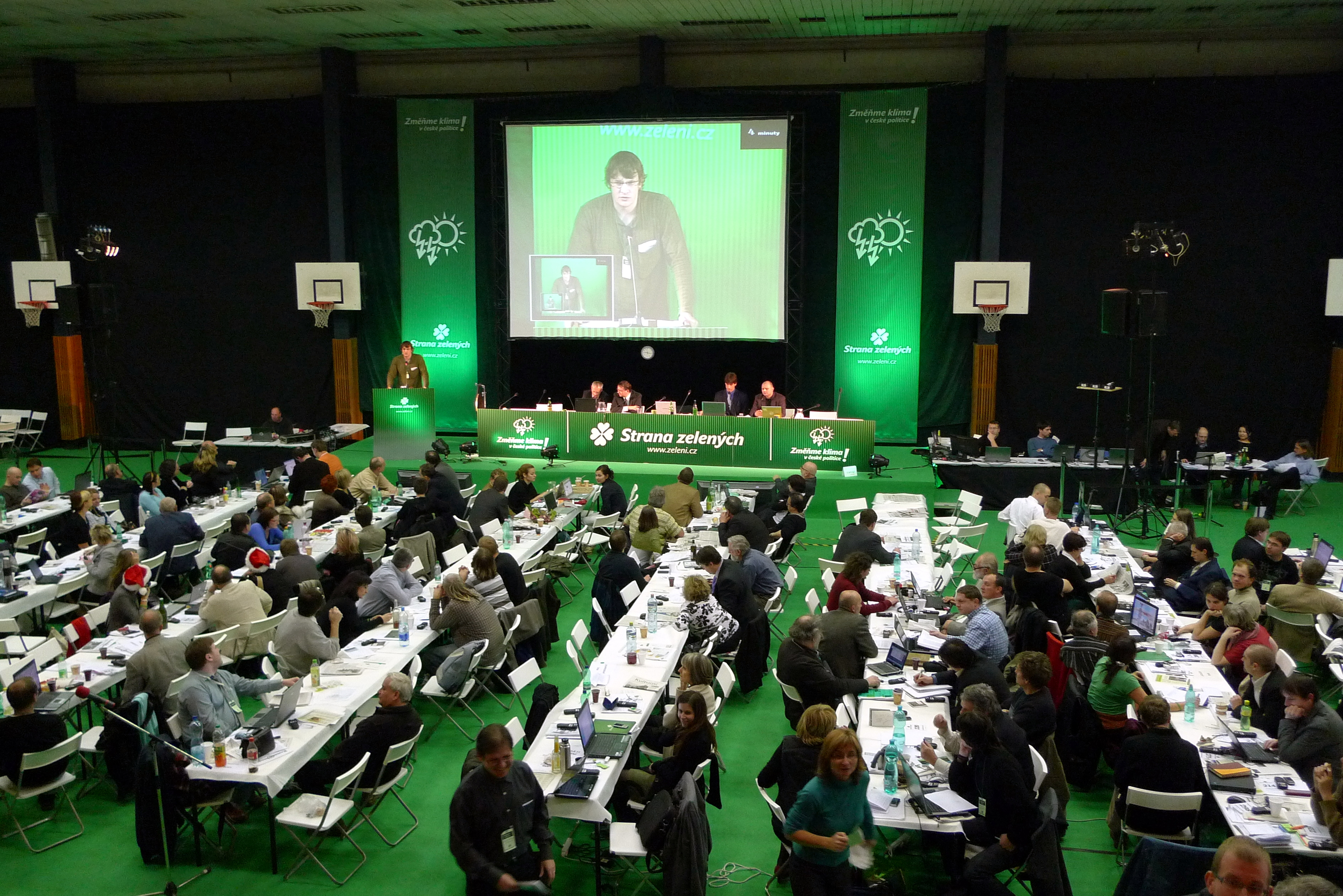 Congress of Green Party of the Czech Republic, Brno, 2009